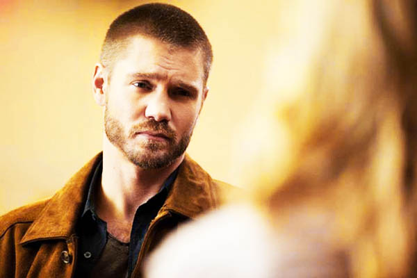 Cameron Buck Williams